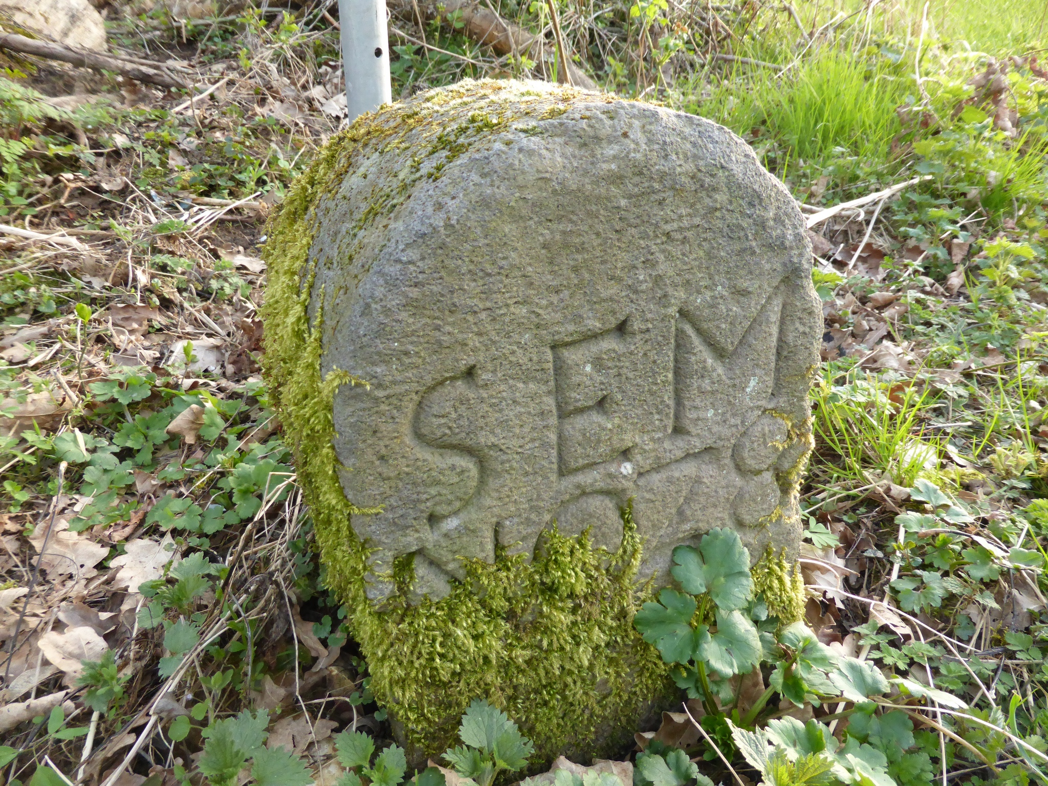 Boundary stone #28 of the Seulberg/Erlenbach march from 1745, front side.